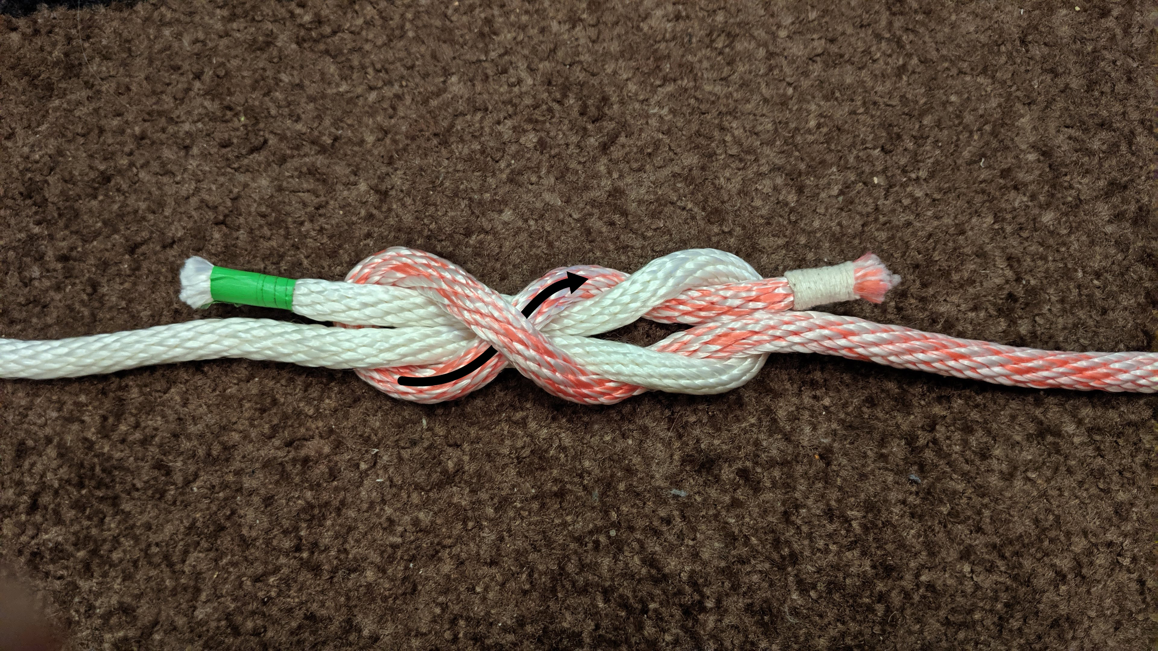 The image reproduces the drawing shown in "The Alternative Knot Book" by Harry Asher. As noted by the author, at the intersection (black arrow in image) the working part passes UNDER the standing part. This creates a more secure bend compared to the SS Over.